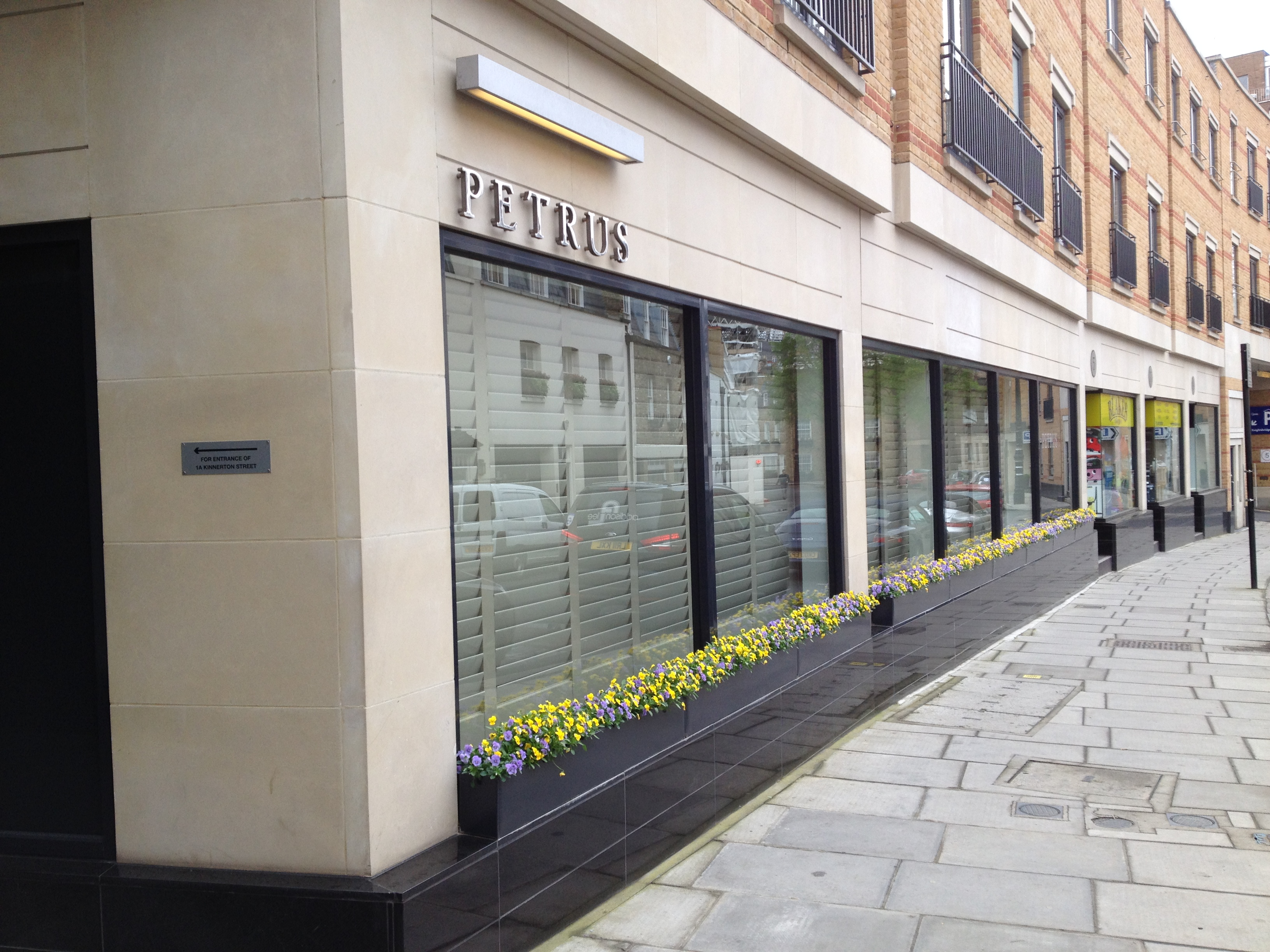 The exterior of the restaurant Petrus in London.